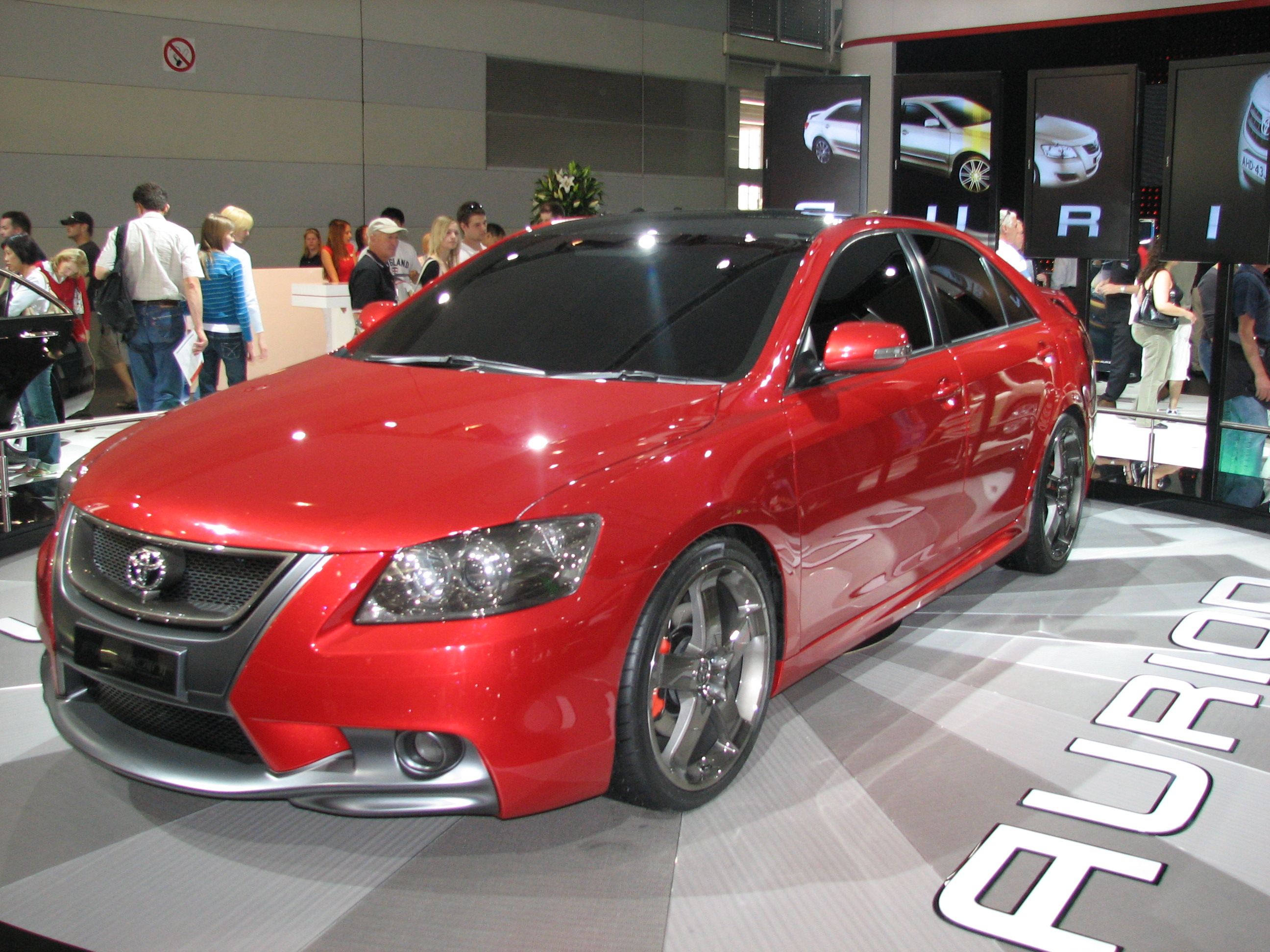 Toyota Aurion Sports Concept